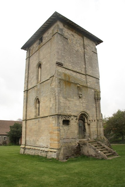 Temple Bruer Preceptory Grade I listed tower and Scheduled Ancient Monument at Temple Farm. All that remains of the Preceptory of the Knights Templar founded in 1185, this 13th century tower was one of a pair that stood east of the circular church. The Templars were suppressed in 1311 and the site became a Commandery for the Knights Hospitaller until its dissolution in 1538.